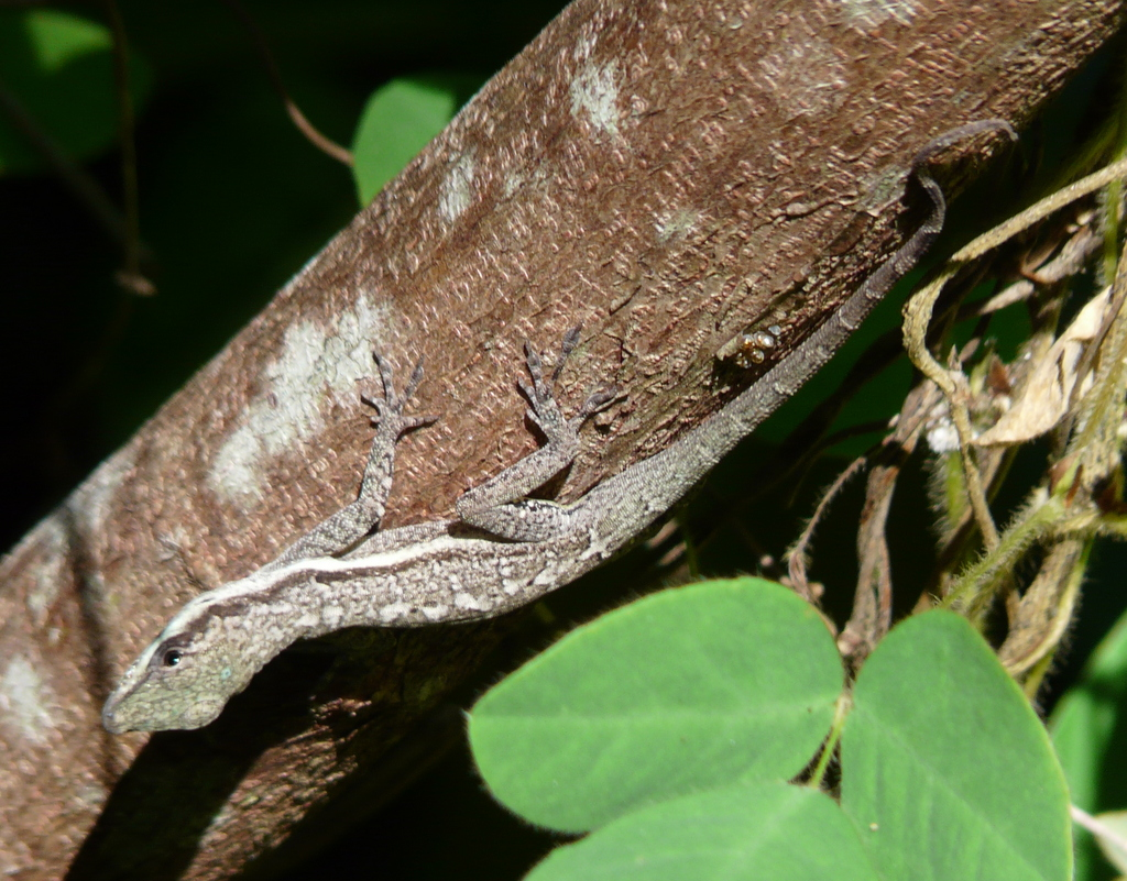 anolis opalinus on branch